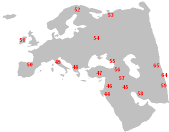 Distribution of standard cross-cultural sample cultures in Europe and Middle East